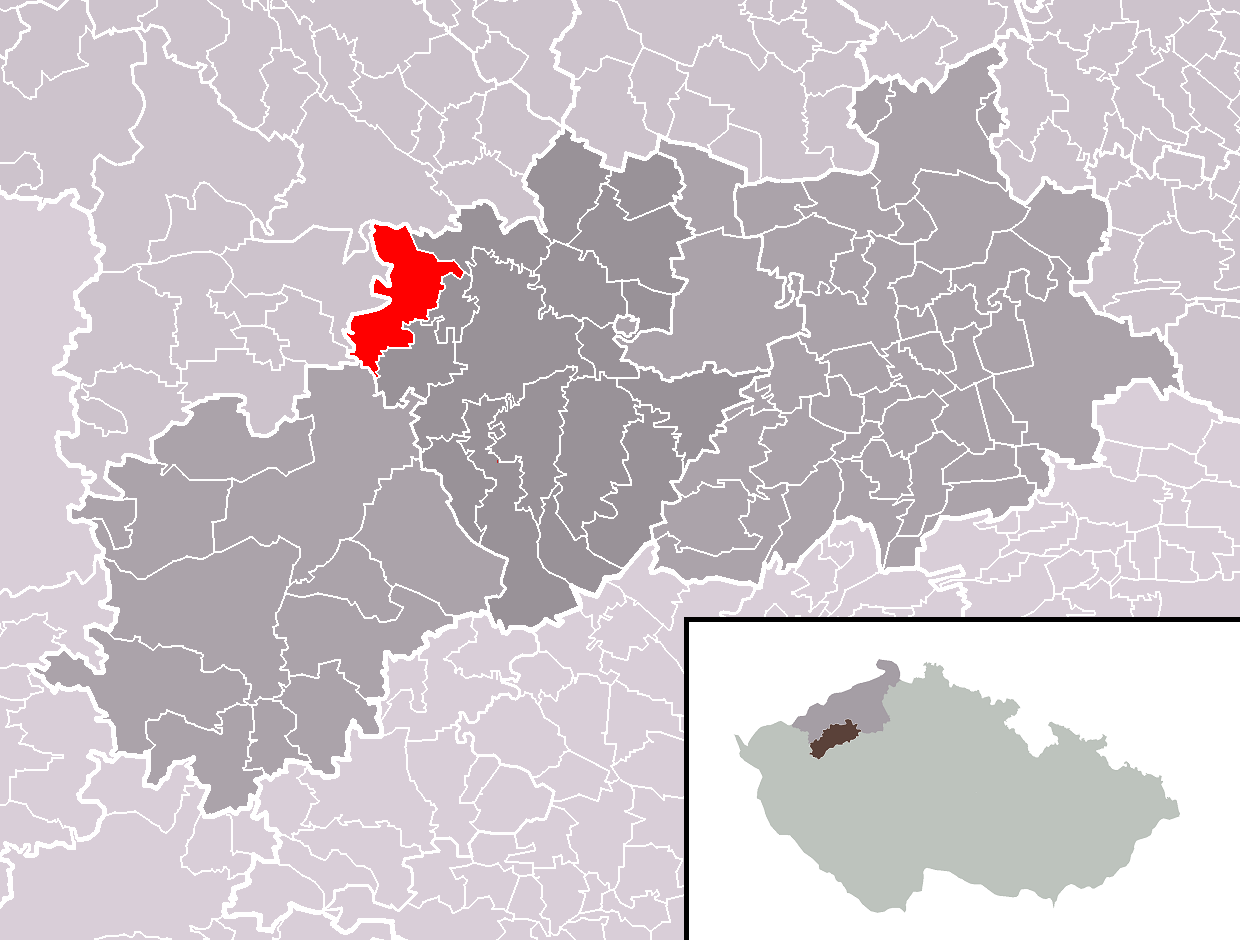 Location of Nové Sedlo municipality within Louny District and administrative area of Žatec as a Municipality with Extended Competence.